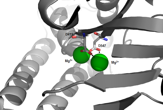 DNA Polymerase II Active Site Mg2+ Ions (PDB ID: 3K5M